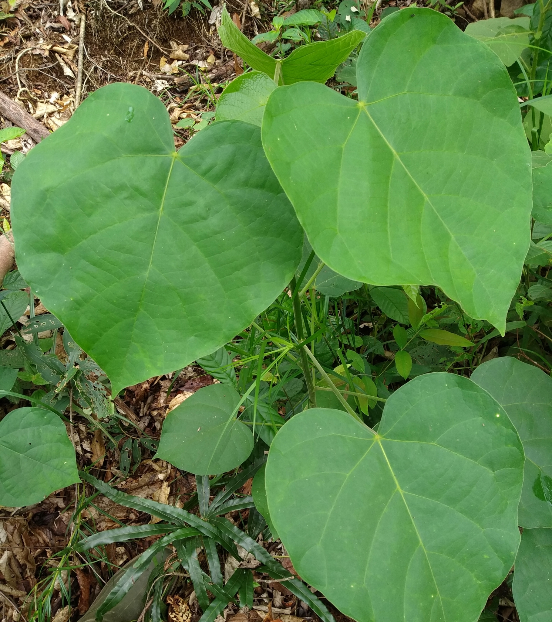 Endospermum diadenum. Species of plant.